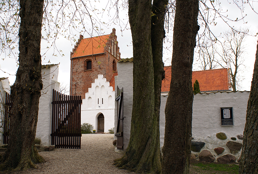 Herslev Church, Herslev (Lejre Kommune), Denmark